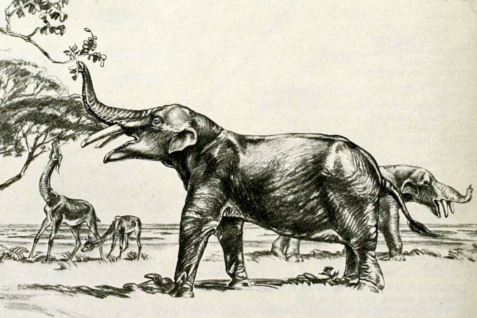 crop of file in file name